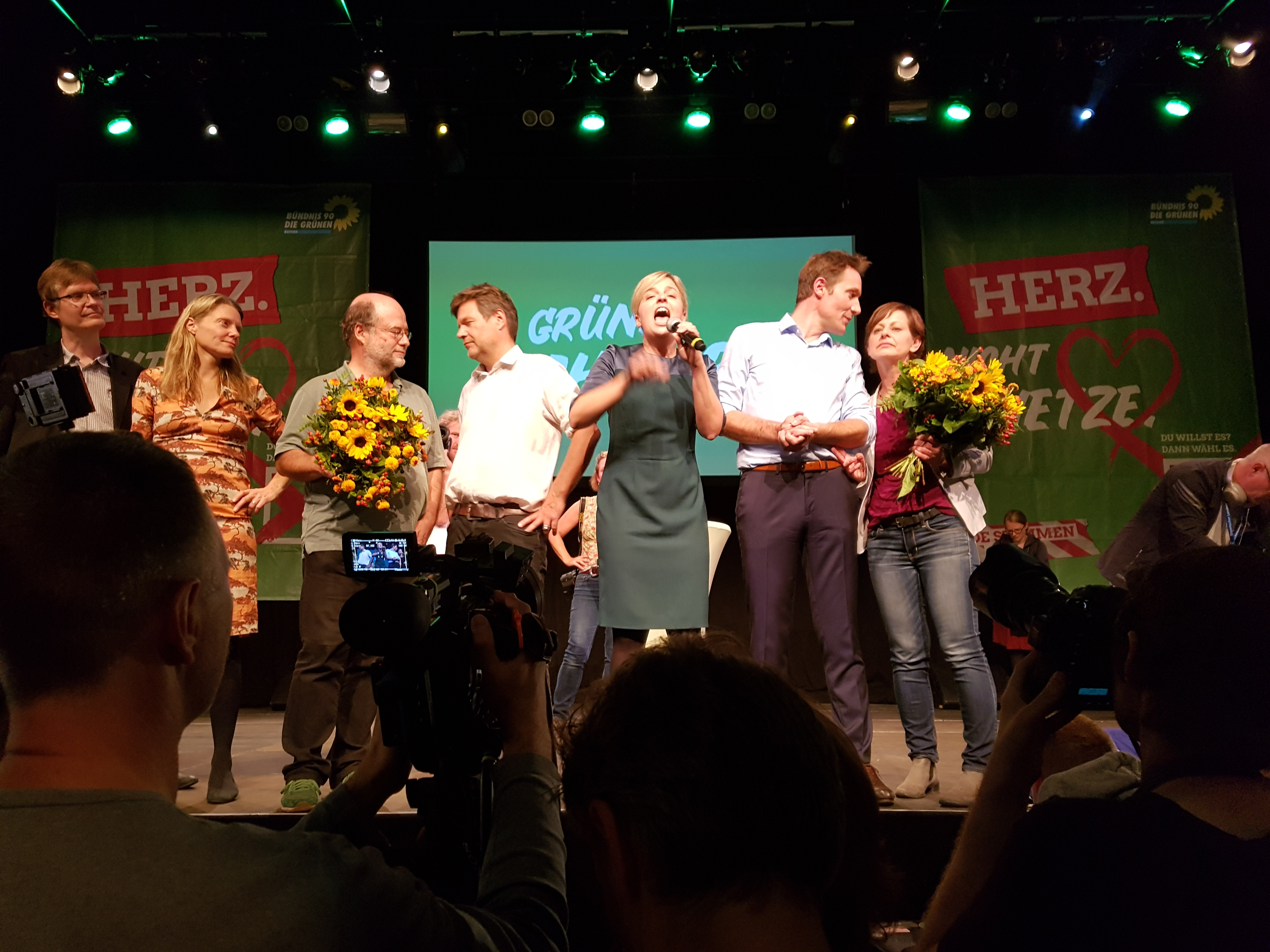 The Greens in Bavaria and a green party after Bavaria state election, October 2018.